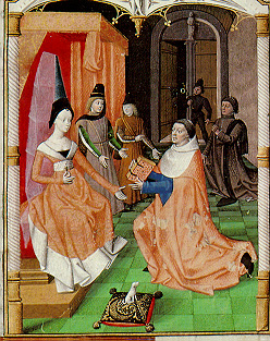 Dedication by Guillaume Fichet of his book Rhetorica to Yolande of France, Duchess of Savoy. Miniature from a manuscript of Rhetorica by Guillaume Fichet (1471), Cologny, Fondation Martin Bodmer (Bibliotheca Bodmeriana), Cod. Bodmer 176, folio 1